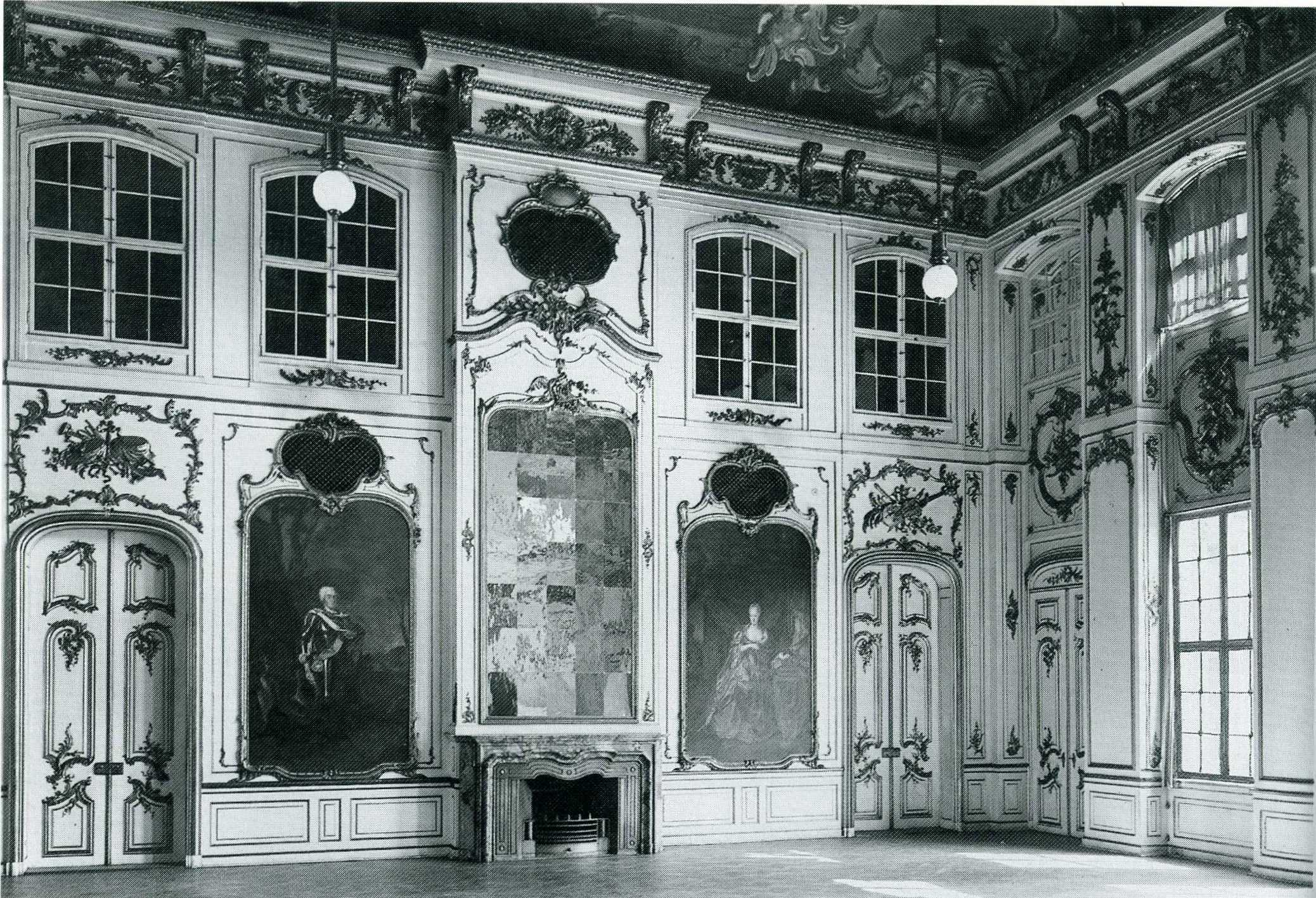 Palais Brühl